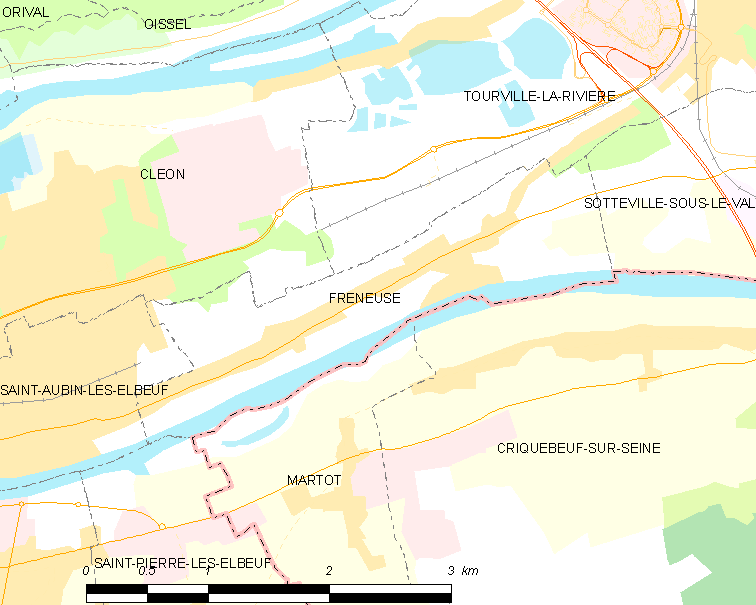 Map of French municipality Freneuse